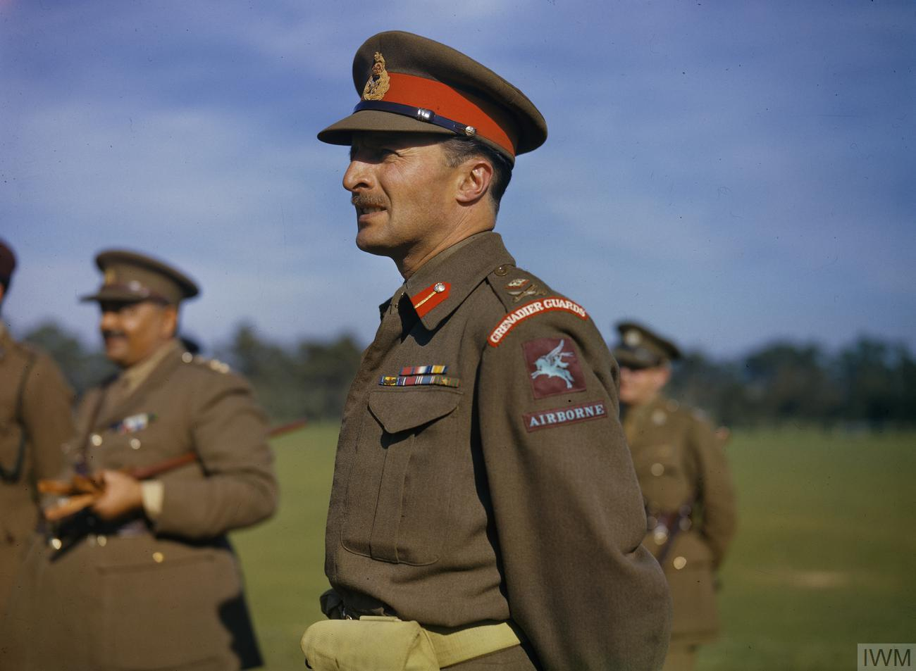 Major-General F.A.M. (Boy) Browning observes paratroop training at Netheravon.